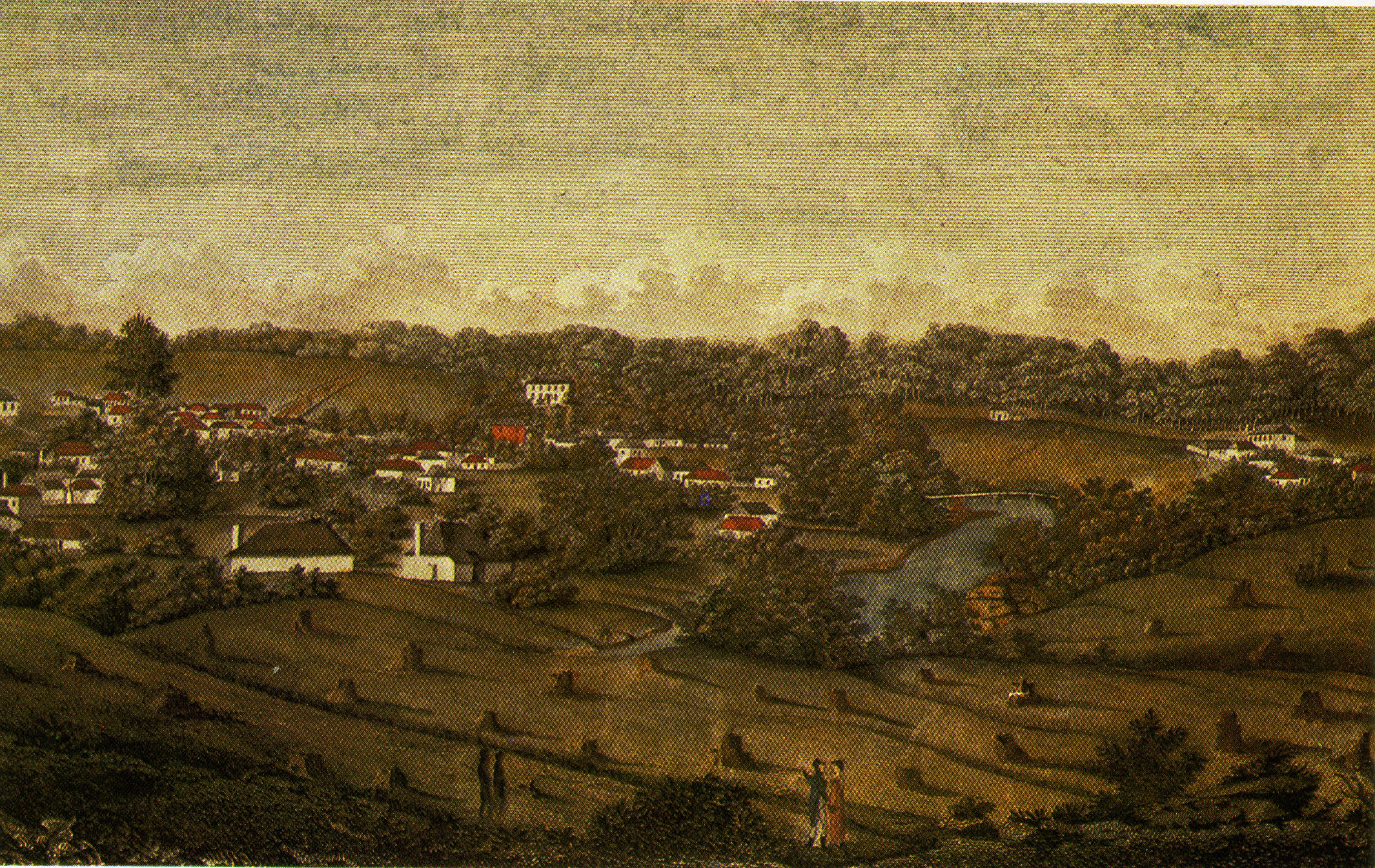 Engraving of Parramatta in 1812